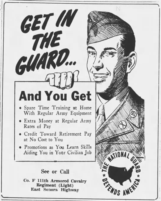 Newspaper recruiting advertisement for Co F, 111th ACR (CA ARNG)